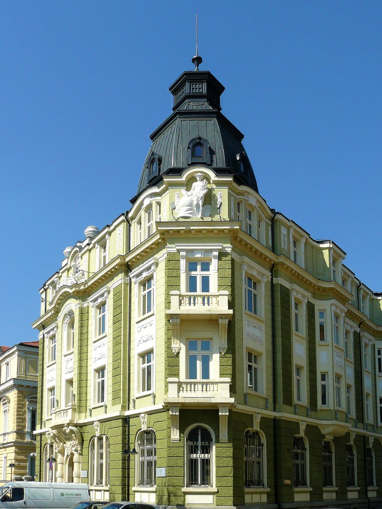 DSK Bank Central Building, Sofia